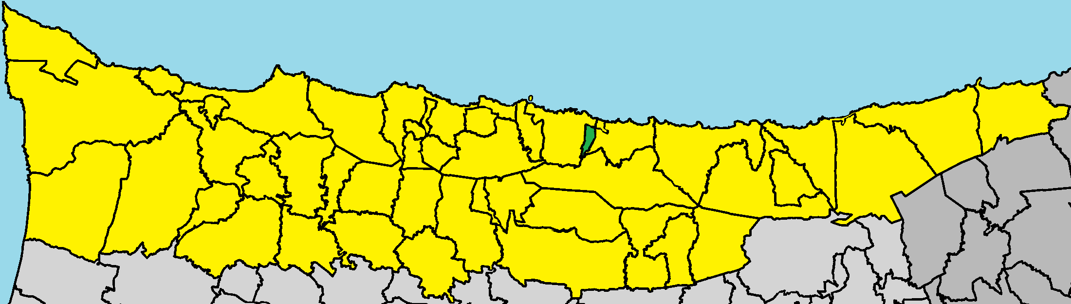 Thermeia in Kyrenia District (de jure).